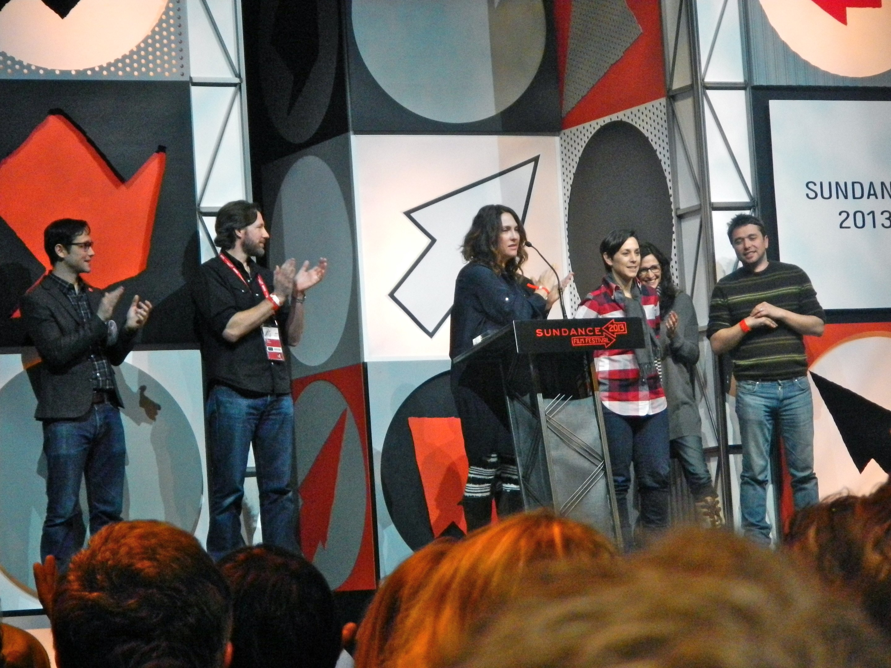 Afternoon Delight wins the U.S. dramatic directing award at Sundance 2013